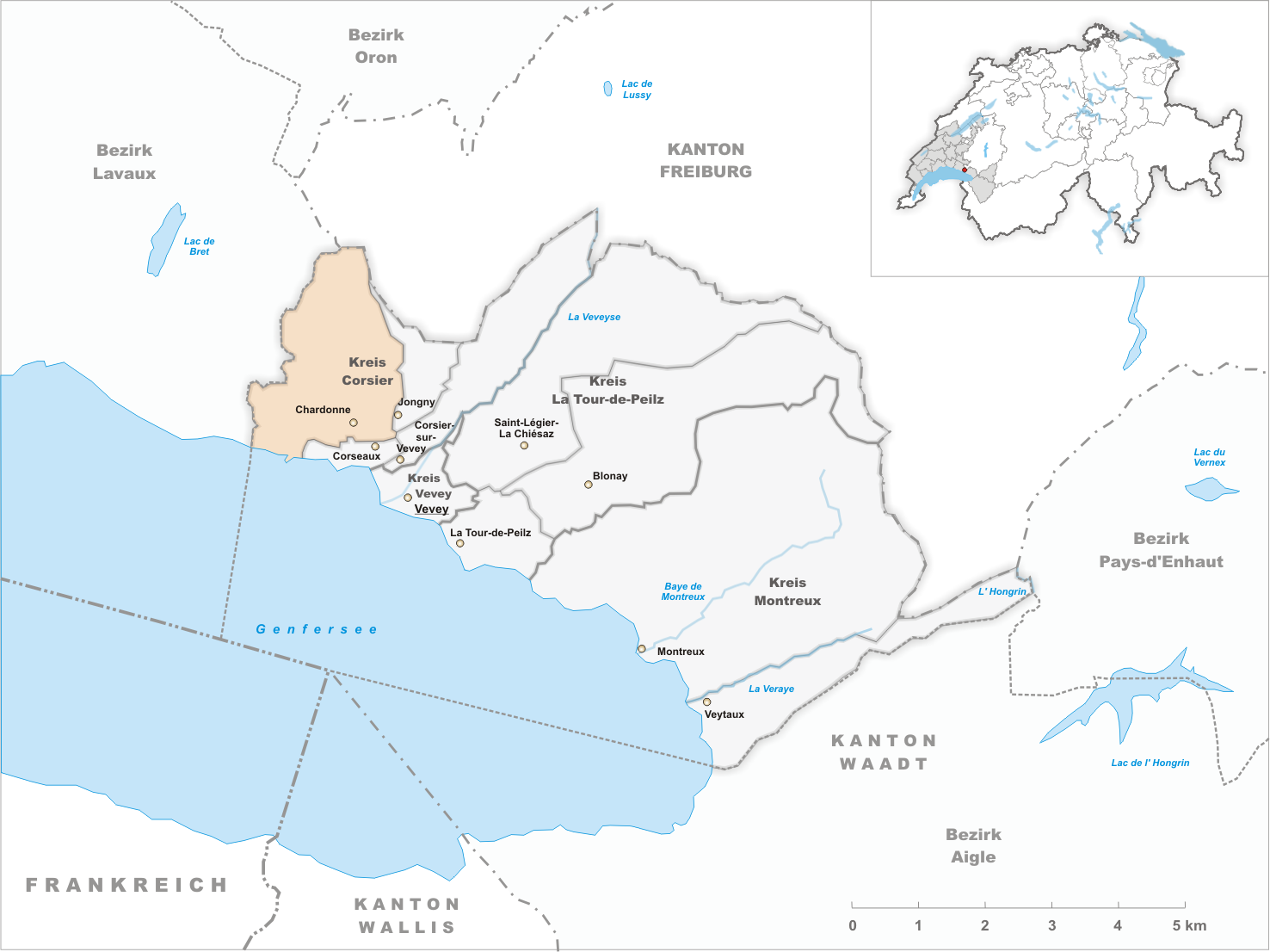 Municipality Chardonne